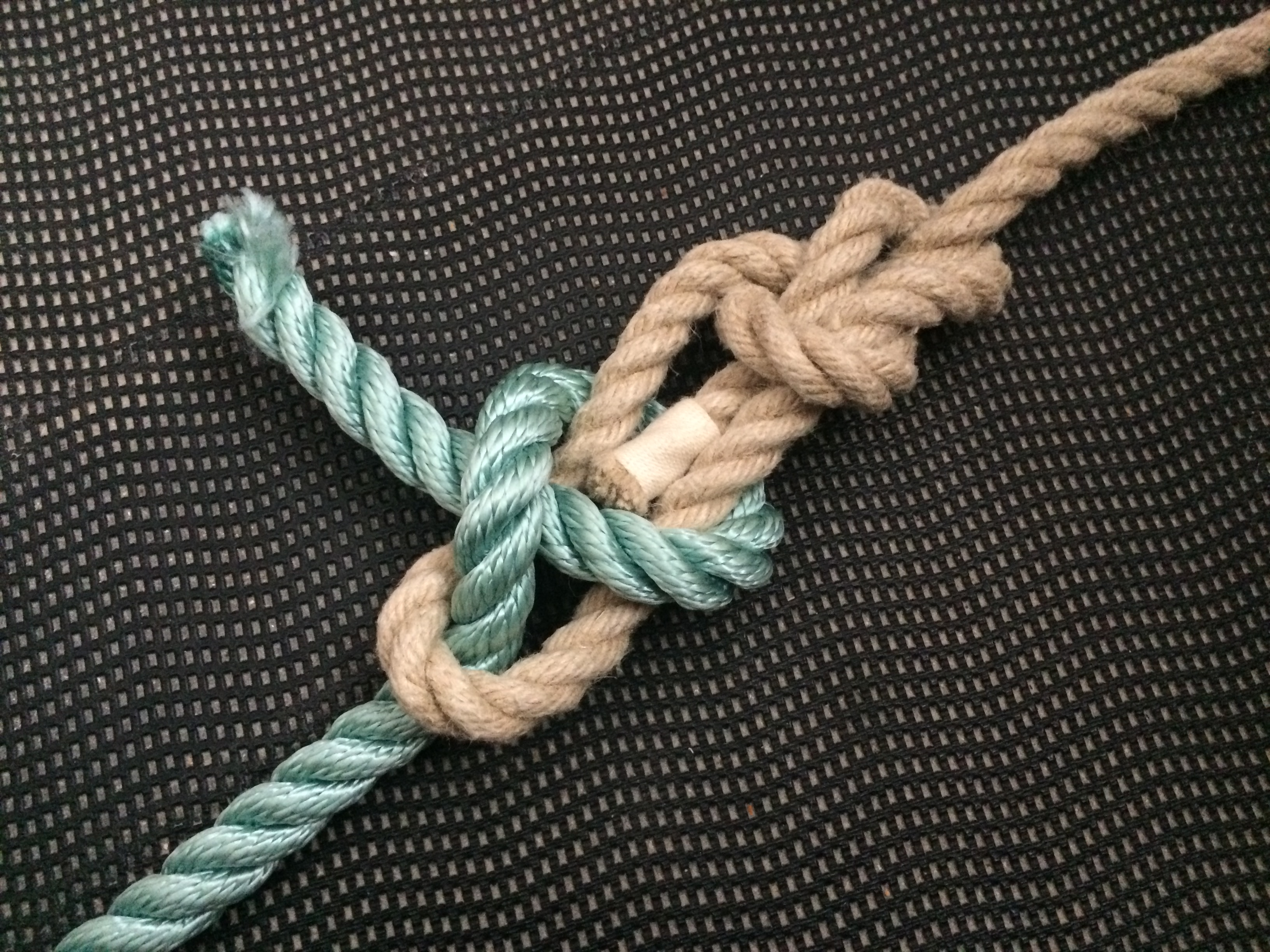 ABOK #1476 Sheet bend to bowline's loop